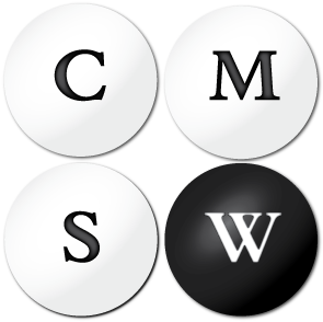 As of summer 2013, the official logo of MIT Comparative Media Studies/Writing. Variations exist for horizontal and logotype uses.